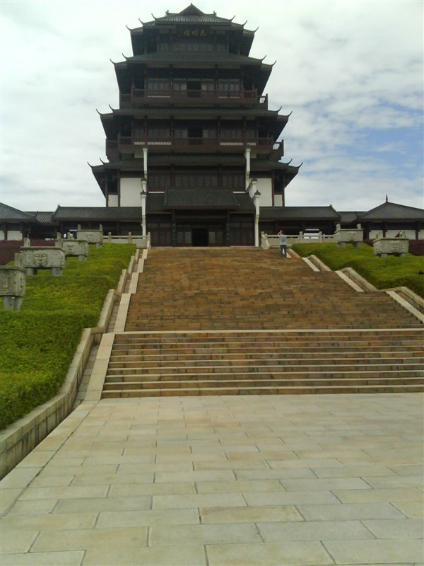 Liu Shaoqi's former residence,,Located in HuaMinglou Town, Ningxiang County, Changsha City, Hunan Province, beautiful , a well-known tourist resorts .